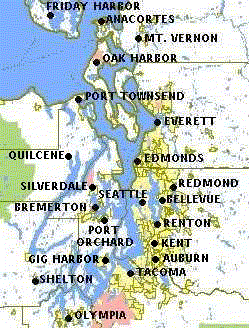 Map Puget Sound created by Benjamin D. Lukoff, based on a map generated via the US Census Tiger server. Created July 18, 2004. ©2004 Benjamin D. Lukoff.